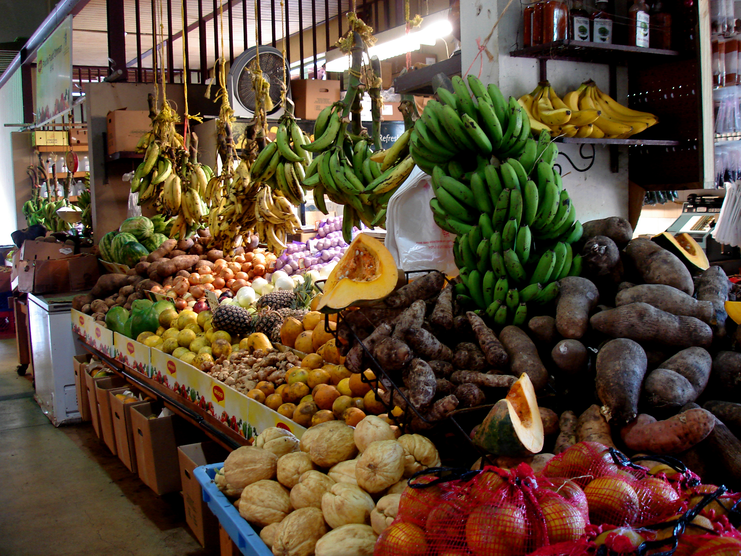 Century old Santurce Market still functioning, new hip organic markets popping up...